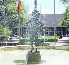 The Fishmonger Sculpture in Mobile, Alabama. A replica of El Cenachero Sculpture in Málaga, Spain.